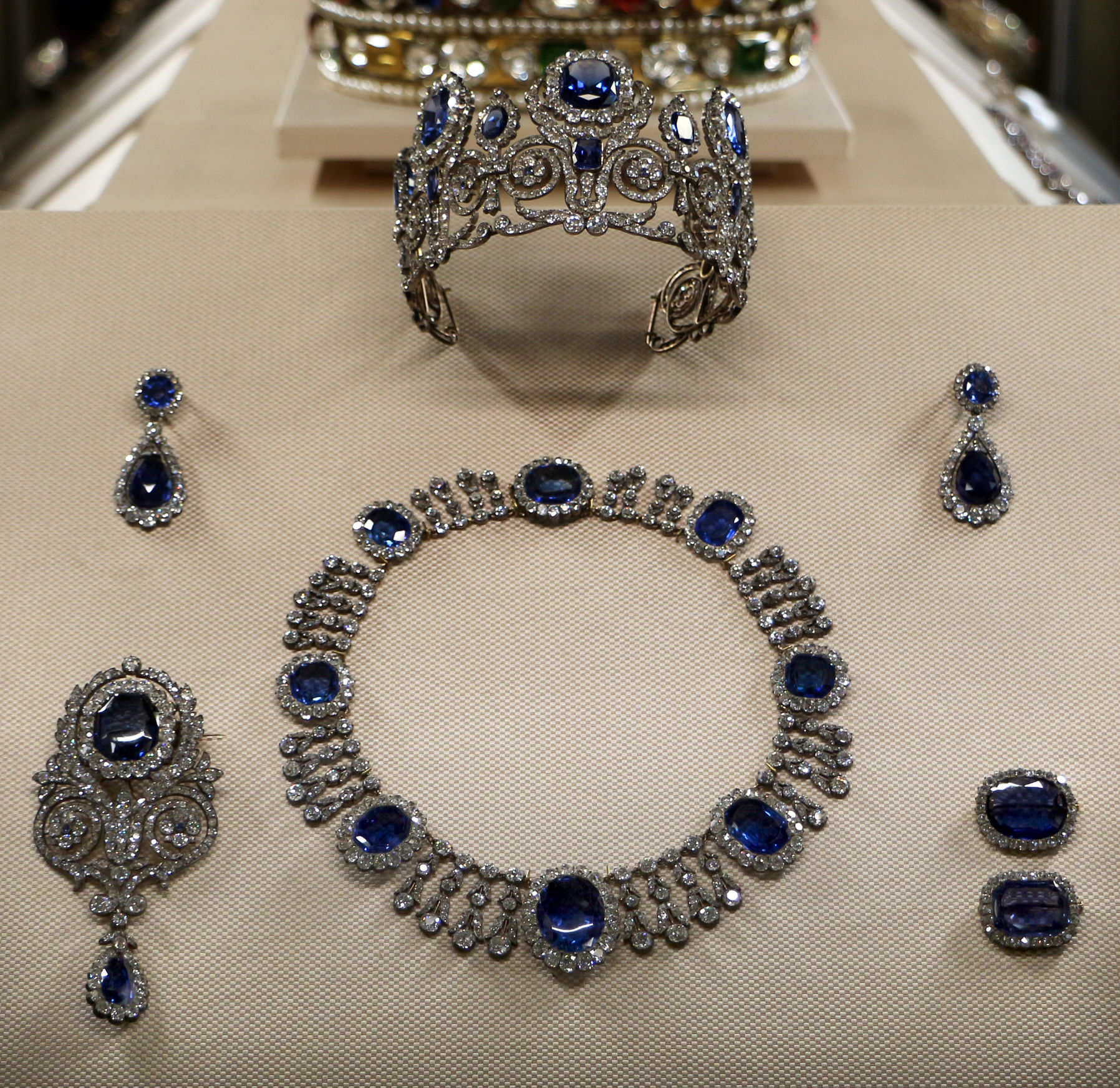 Crown jewels of France (gallery of Apollo)